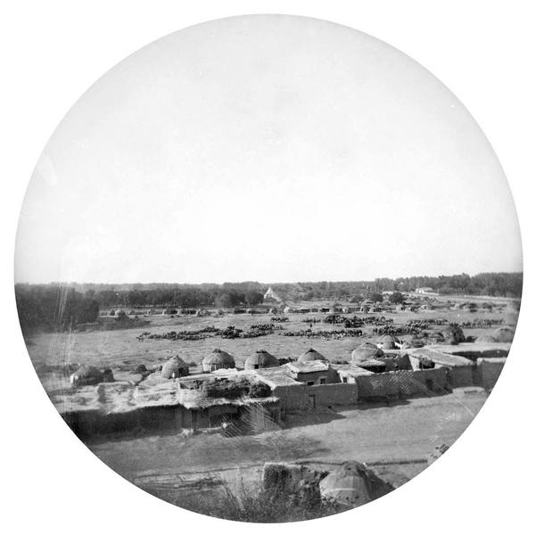 Юрты в Чиназе 1890 г.